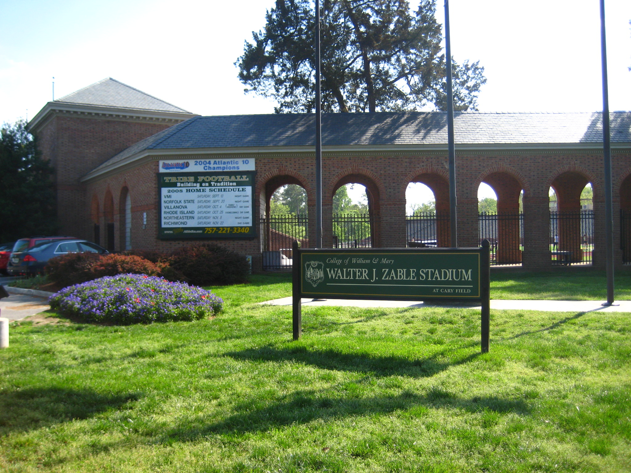 The outside of Zable Stadium at the College of William & Mary in Williamsburg, Virginia, USA.